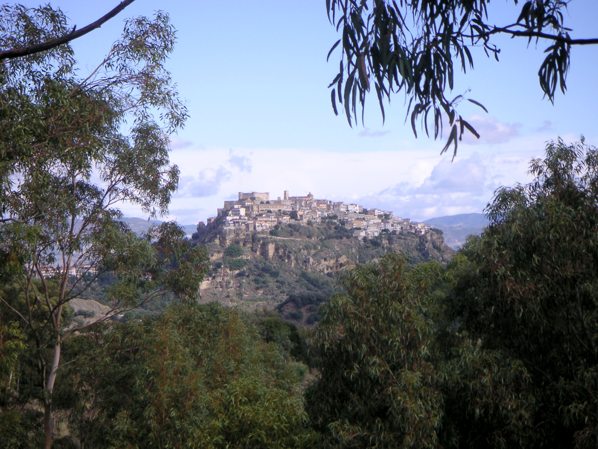 Santa Severina in Crotone, Calabria, Italia